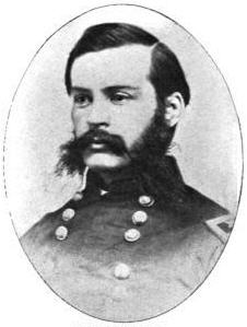 Cyrus Hamlin, From Companions of the Military Order of the Loyal Legion of the United States - An Album Containing Portraits of Members of the Military Order of the Loyal Legion of the United States, L. R. Hamersly Co., New York, 1901, p. 278.